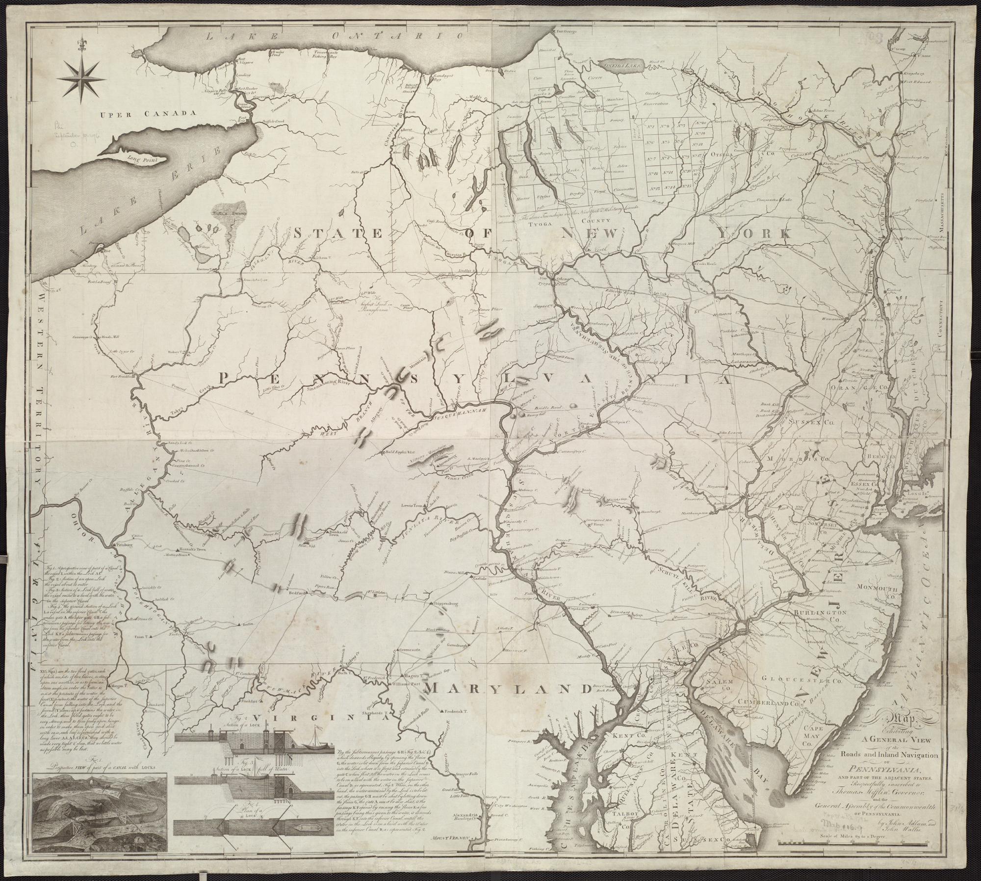 Zoom into this map at . Author: Adlum, John Date: 1791 Location: Middle Atlantic States, Pennsylvania Dimension: 83x91cm Scale: 1:650,000 Call Number: G3820 1791 .A35